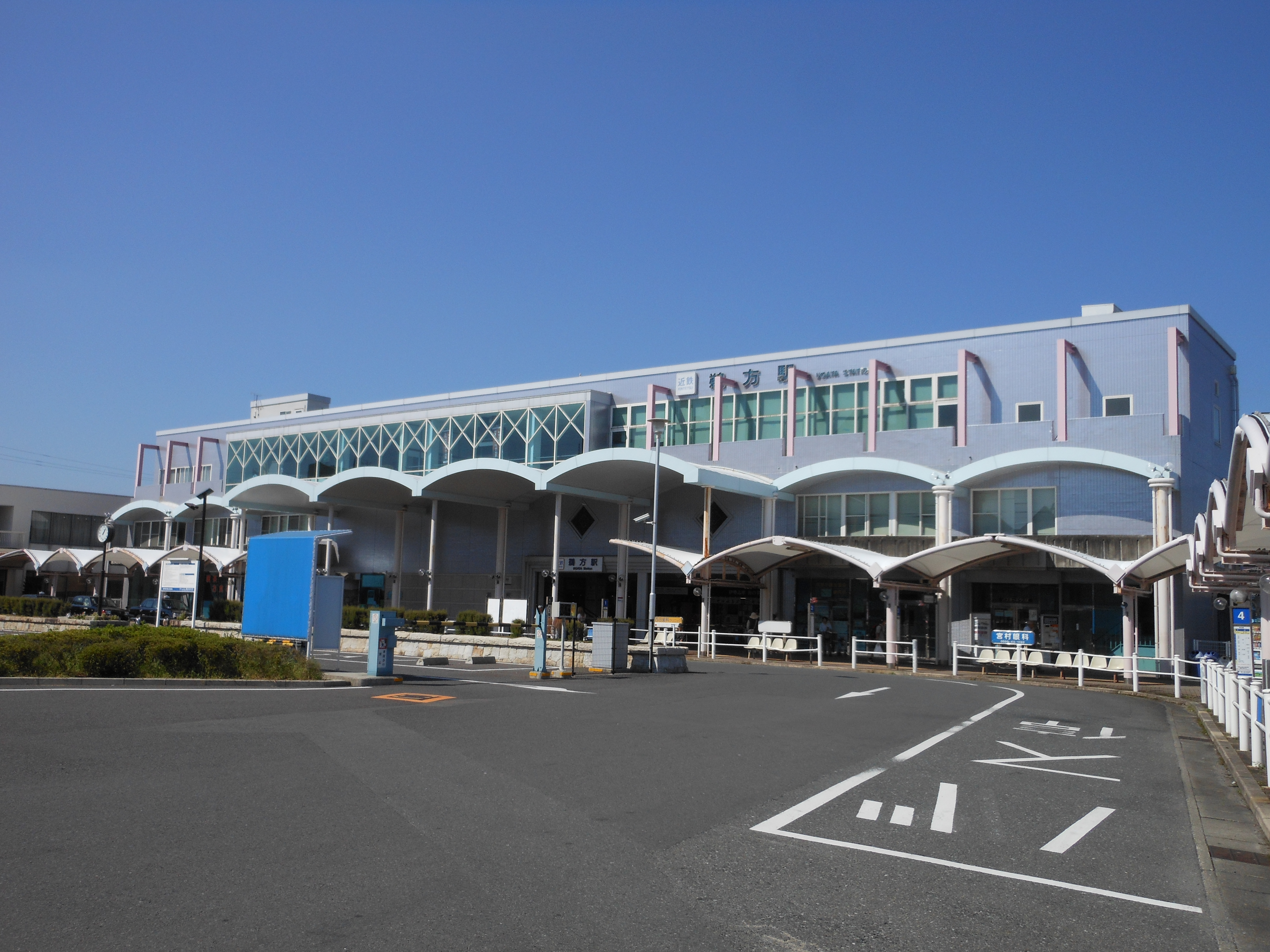 This is the south exit of Kintetsu Ugata station. This station is central station of Shima city, Mie prefecture, Japan.